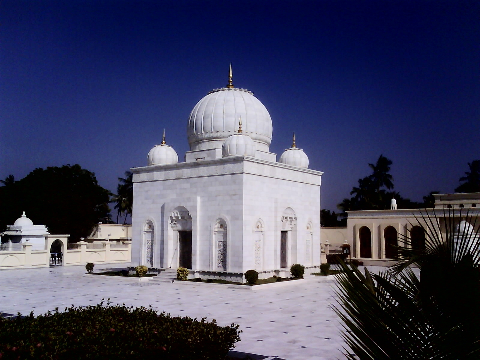 Mausoleum of Syedna Noor Mohammed Nooruddin, the 34th Da'i al-Mutlaq of the Dawoodi Bohra, in Mandvi, shot from the entrance to the Mazar